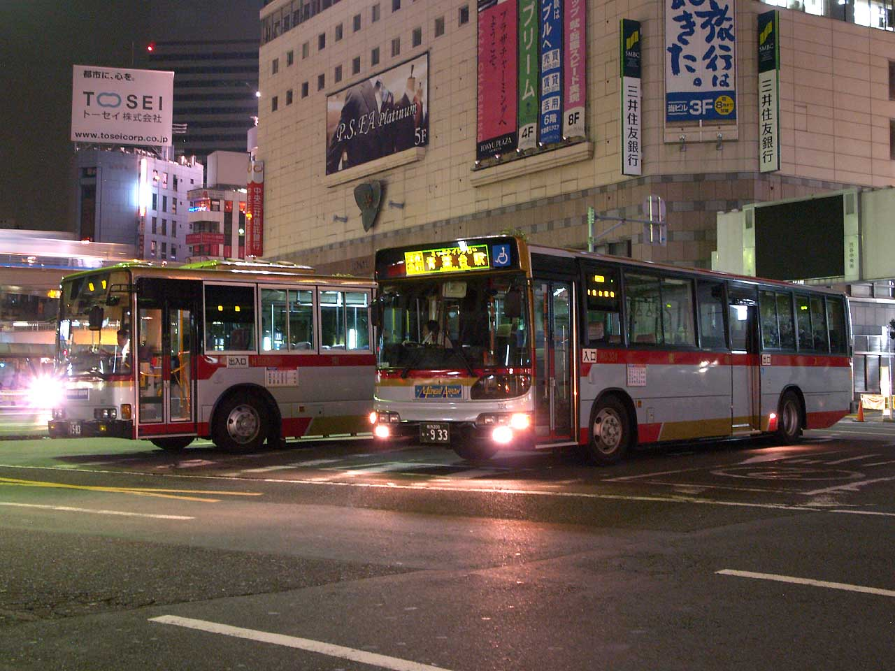 Fleet of Tokyu Bus night express bus service "Midnight Arrow", cars called "One-Roma" from Japanese bus fan, painted gold line on the roof and bottom. Tokyu Bus's "Midfnight Arrow" is operating to northern Yokohama and mid-Kawasaki from Shibuya on weekday midnight. Right (AO324: bound for Aobadai, Yokohama) Model: Hino Blue Ribbon City KL-HU2PREA License plate: KNY200 KA-933 Left (H597: bound for Nakamachidai, Kohoku New Town, Yokohama) Model: Mitsubishi Fuso Aero Star KL-MP35JM-kai (stretched) License plate: KNY200 KA1583 Place: Shibuya station: Shibuya ward, Tokyo Japan